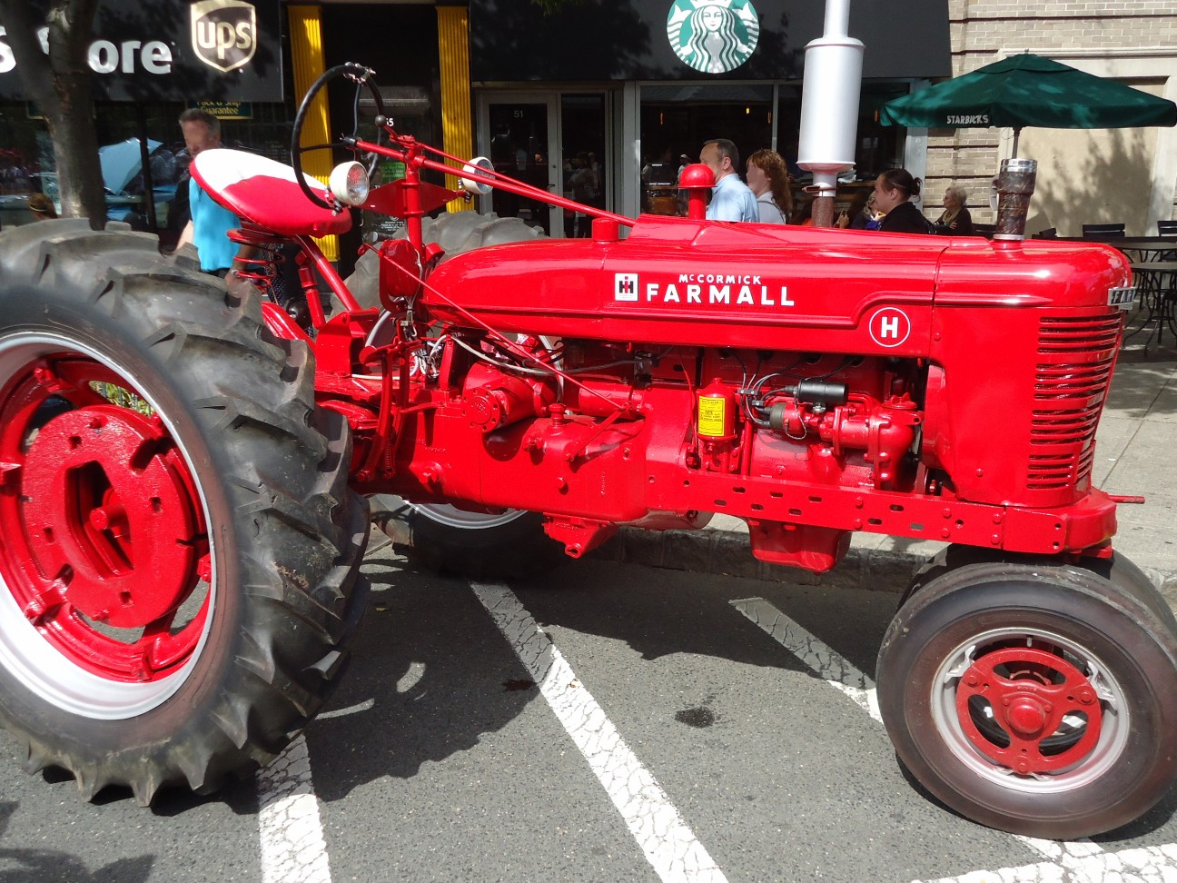 A McCormick Farmall red tractor, on display. Scene from a car show in Summit, New Jersey.